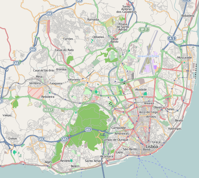 Location map of Lisbon